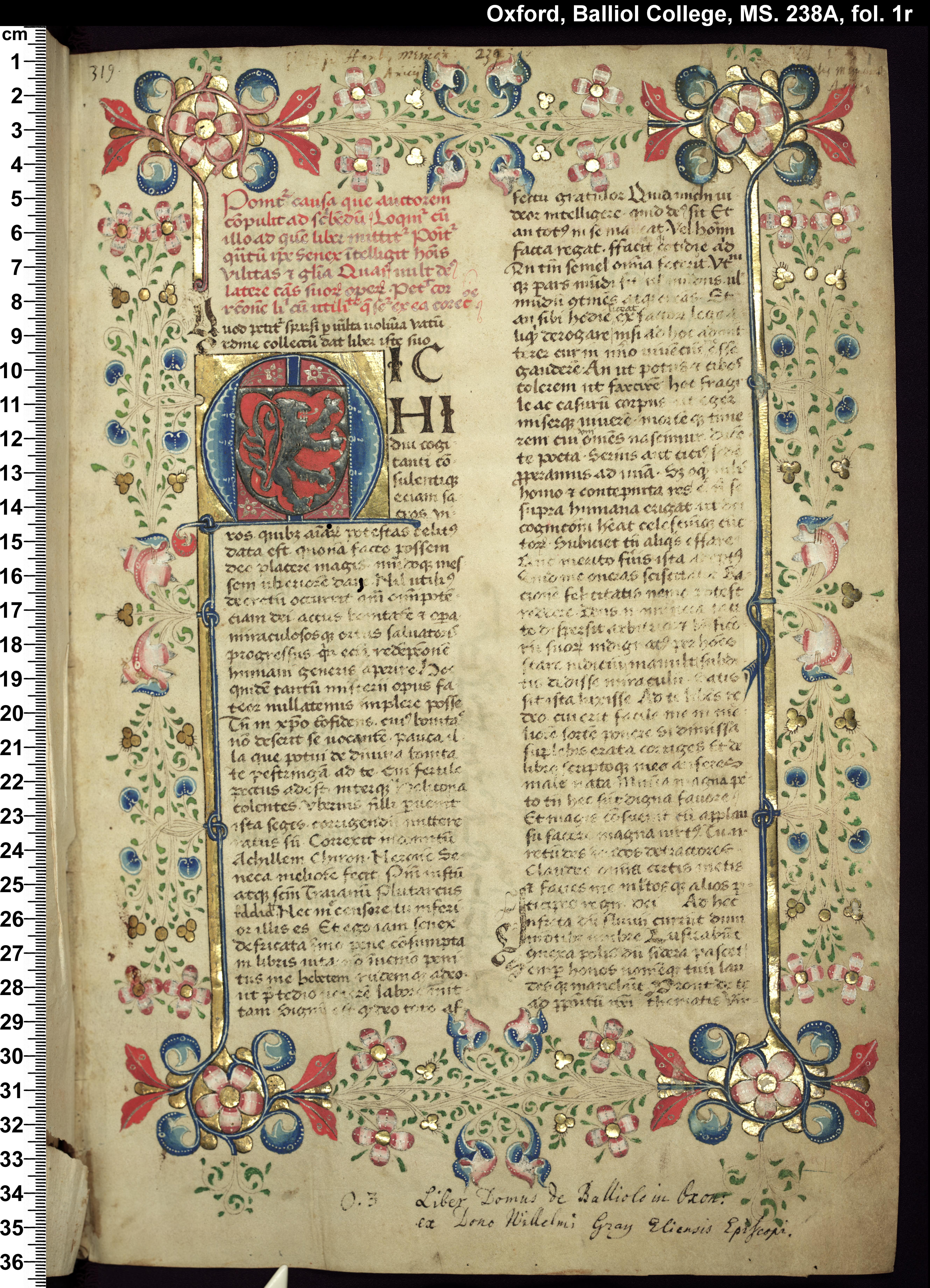 The early 15th century encyclopedia Fons memorabilium universi by Domenico Bandini of Arezzo. This is the first page (folio 1R) of the illuminated manuscript MS 238A held at Balliol College.